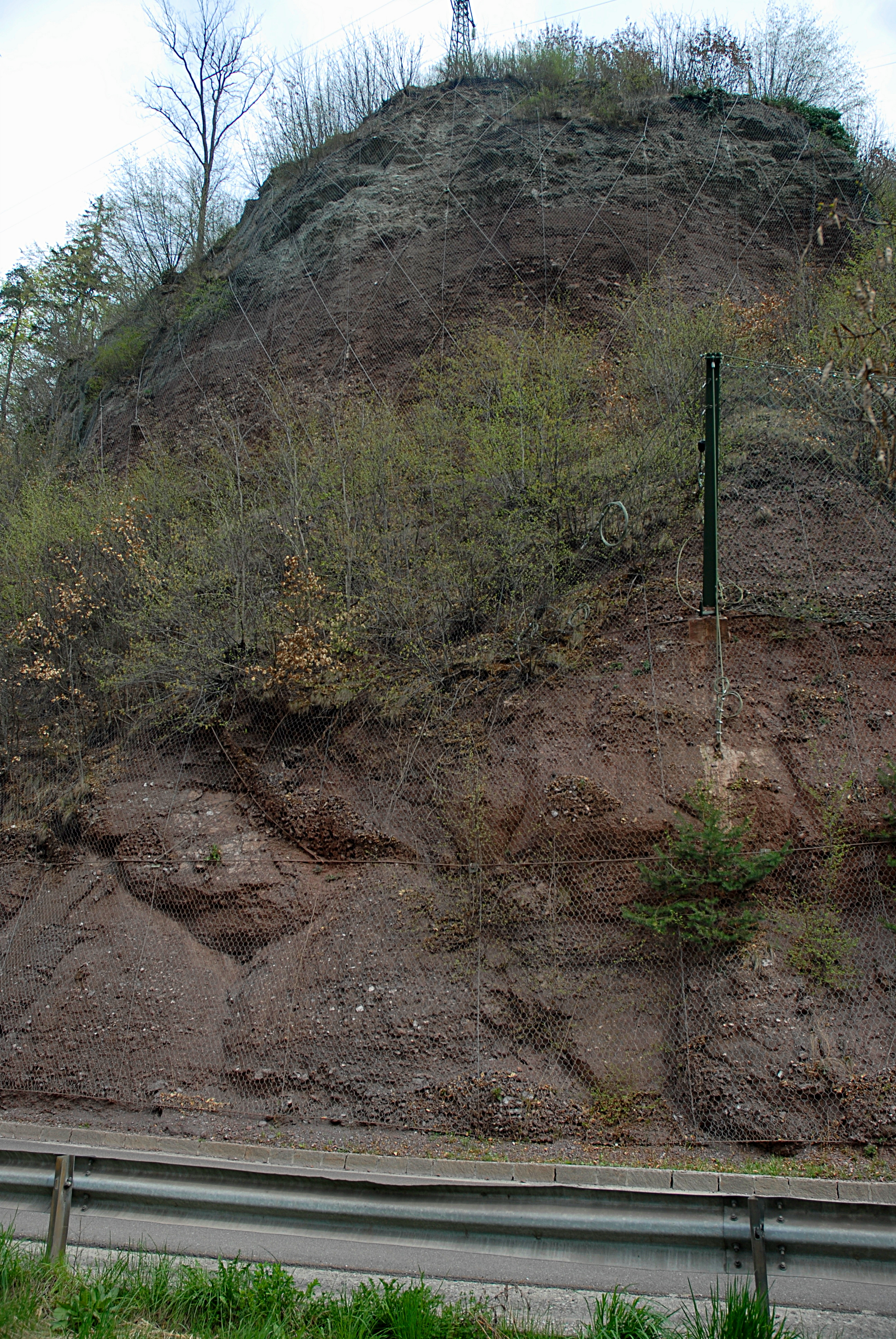 The Waidbruck Conglomerate (Permian) near Waidbruck, South Tyrol